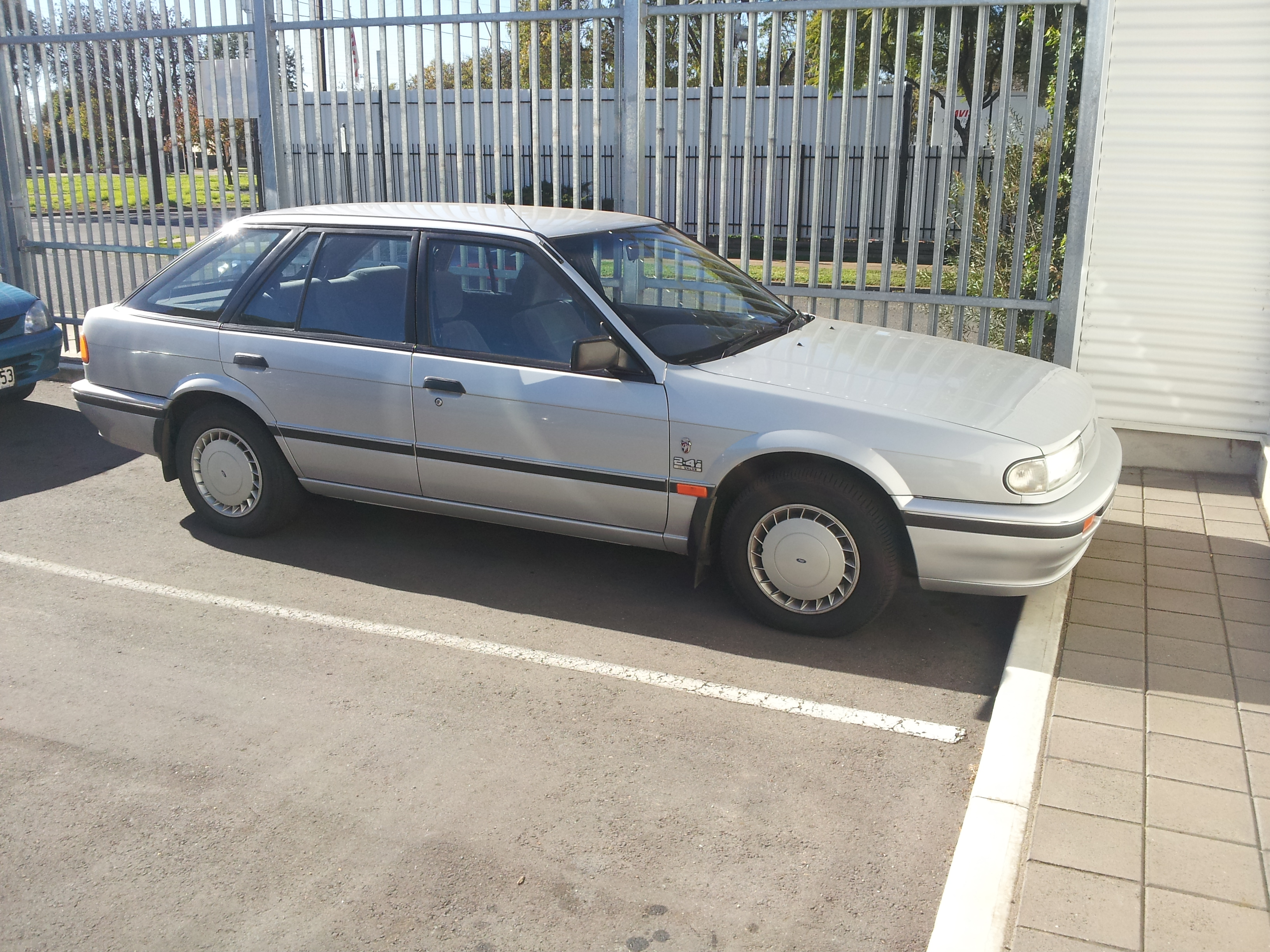 These were simply a rebadged Nissan Pintara (Bluebird) that were sold only in Australia. The car was meant to be a placement for the Mazda 626 based Ford Telstar, but instead, Ford Australia kept the Telstar and Corsair together to cover both the lower and higher segments of the medium size car market. It only lasted until 1992, which is when Nissan closed it's Australian manufacturing plant and with it the Nissan Pintara also died. They were sold as a sedan and hatchback and as a 2.0L or 2.4L 4 cylnder engines. The hatchback always reminded me of a cross between a small wagon and a hatchback and nowadays is super rare!! The Ford version never sold in the same numbers as the Nissan, mainly because people bought the larger Telstar instead.